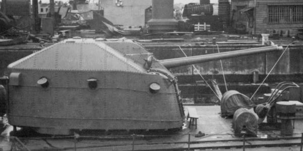 No.4 turret of Japanese destroyer Hatutsuki on dry dock of Maizuru Naval Arsenal.